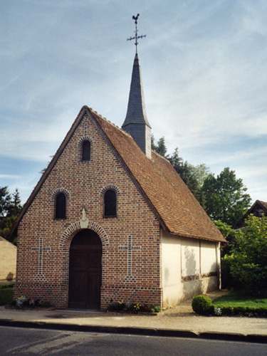 Source : Observatoire du Patrimoine Religieux